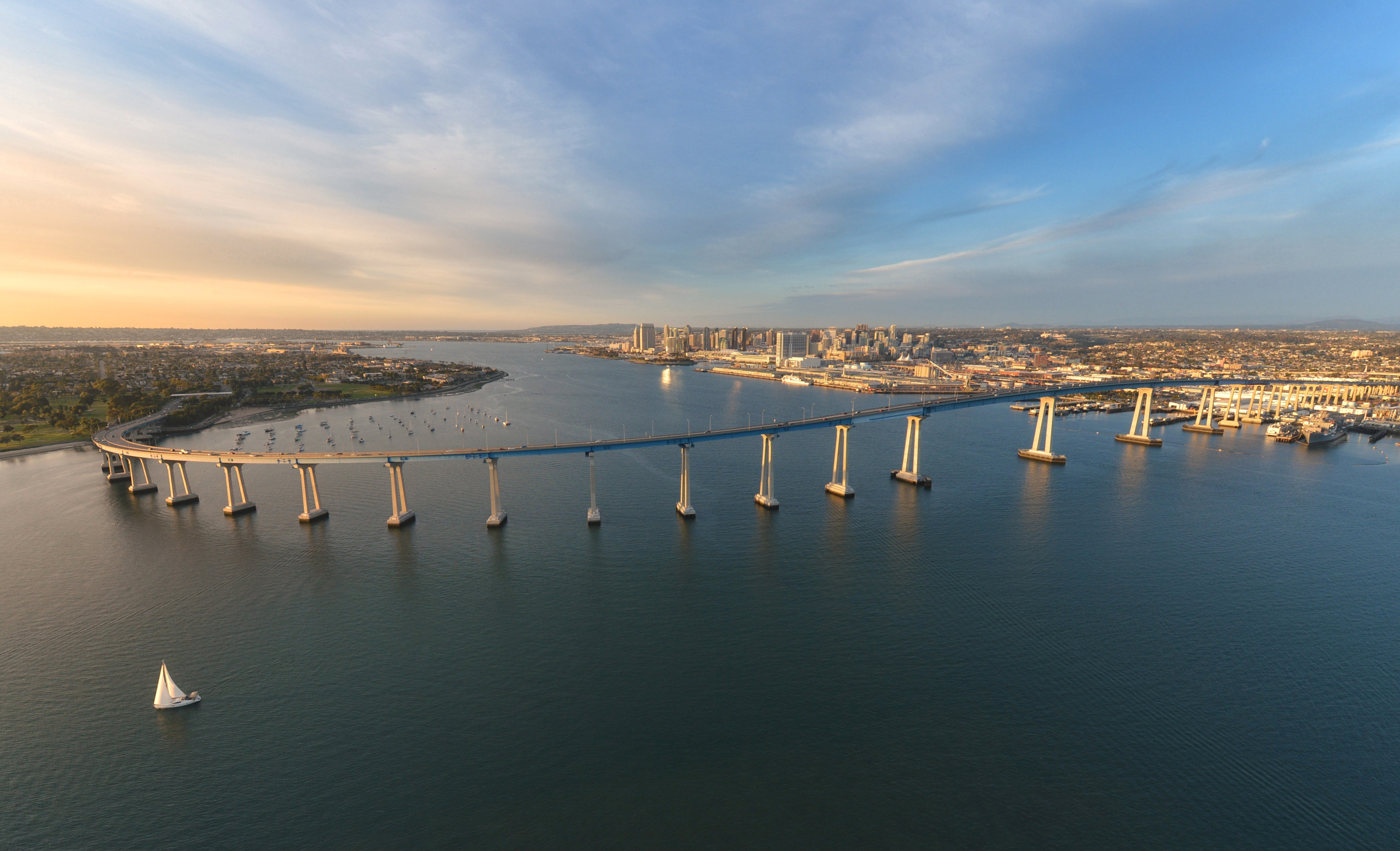 An aerial view of the San Diego-Coronado Bridge. The bridge connects the California cities of Coronado and San Diego over the San Diego Bay.